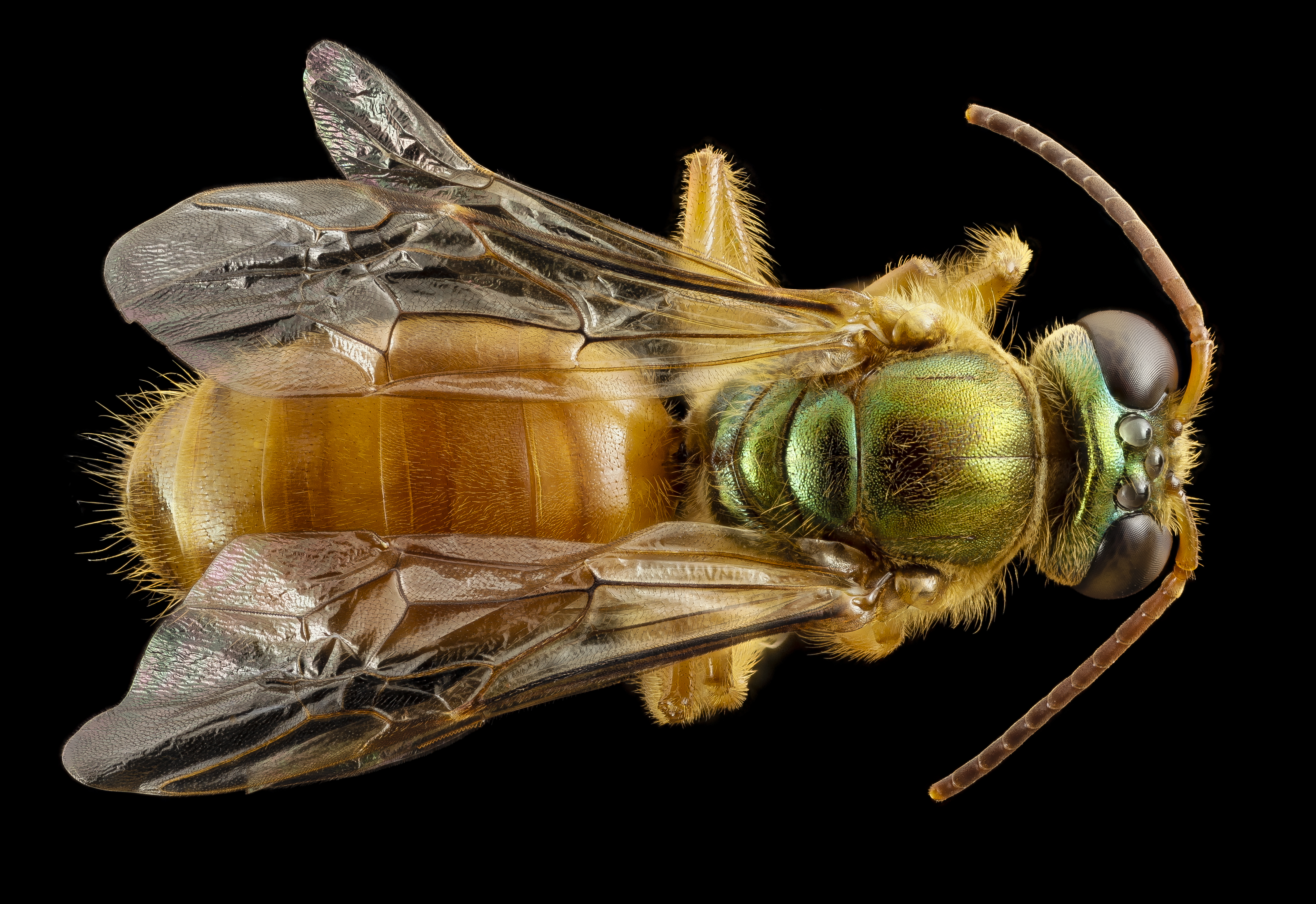 What an interesting species. Instead of flying during the day, this species flies just before dawn and just after dusk, times where we have difficulty seeing. This species, however, forages on crepuscular and night fowering flowers, more often associated with bats and moths. Note the large eyes and ocelli. This specimen collected on Barro Colorado Island in Panama by researcher Adam Smith. 13:56, 17 November 2014 (UTC)13:56, 17 November 2014 (UTC) 0 13:56, 17 November 2014 (UTC)13:56, 17 November 2014 (UTC) All photographs are public domain, feel free to download and use as you wish. Photography Information: Canon Mark II 5D, Zerene Stacker, Stackshot Sled, 65mm Canon MP-E 1-5X macro lens, Twin Macro Flash in Styrofoam Cooler, F5.0, ISO 100, Shutter Speed 200 Further in Summer than the Birds Pathetic from the Grass A minor Nation celebrates Its unobtrusive Mass. No Ordinance be seen So gradual the Grace A pensive Custom it becomes Enlarging Loneliness. Antiquest felt at Noon When August burning low Arise this spectral Canticle Repose to typify Remit as yet no Grace No Furrow on the Glow Yet a Druidic Difference Enhances Nature now -- Emily Dickinson Want some Useful Links to the Techniques We Use? Well now here you go Citizen: Basic USGSBIML set up: USGSBIML Photoshopping Technique: Note that we now have added using the burn tool at 50% opacity set to shadows to clean up the halos that bleed into the black background from "hot" color sections of the picture. PDF of Basic USGSBIML Photography Set Up: ftp://ftpext.usgs.gov/pub/er/md/laurel/Droege/How%20to%20Take%20MacroPhotographs%20of%20Insects%20BIML%20Lab2.pdf Google Hangout Demonstration of Techniques: or Excellent Technical Form on Stacking: Contact information: Sam Droege 301 497 5840